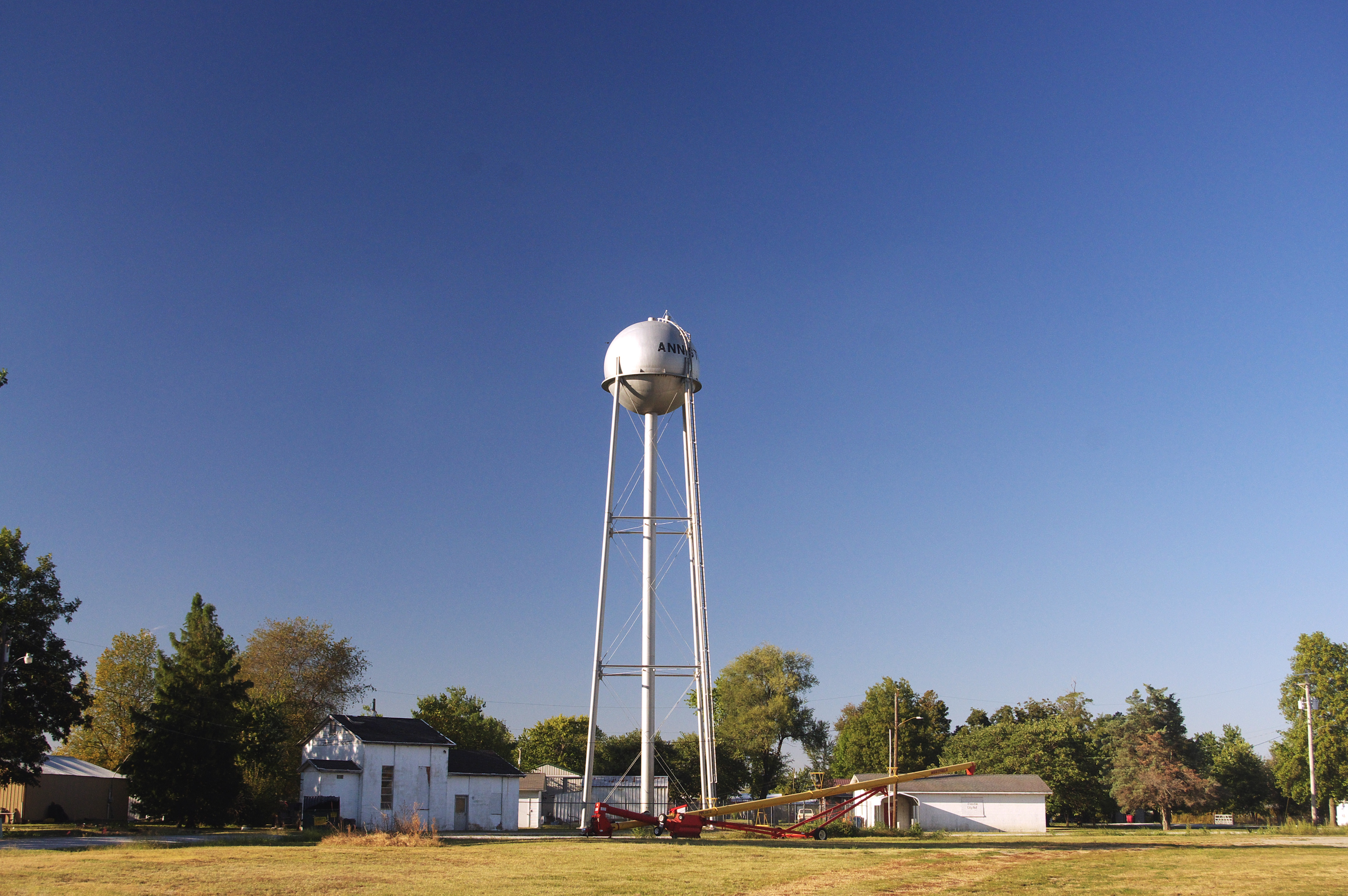 Water tower and other buildings in Anniston, Missouri, United States.